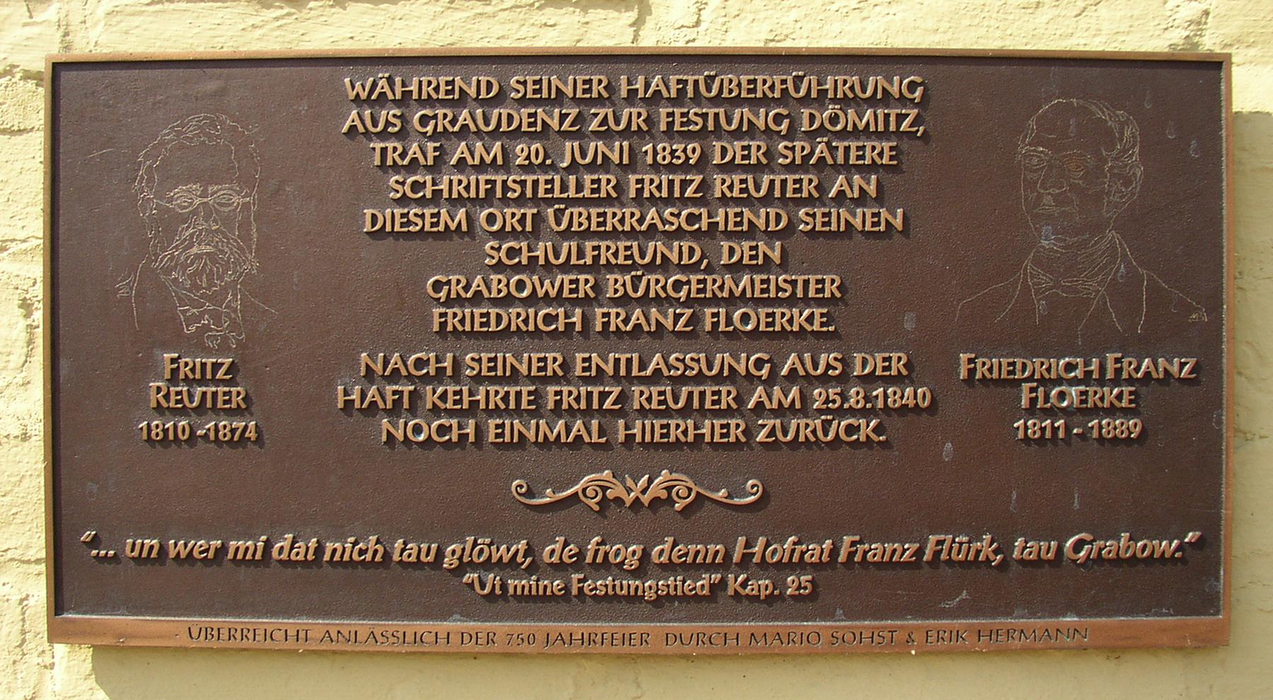 Memorial plaque for Fritz Reuter and Friedrich Franz Floerke in Grabow in Mecklenburg-Western Pomerania, Germany